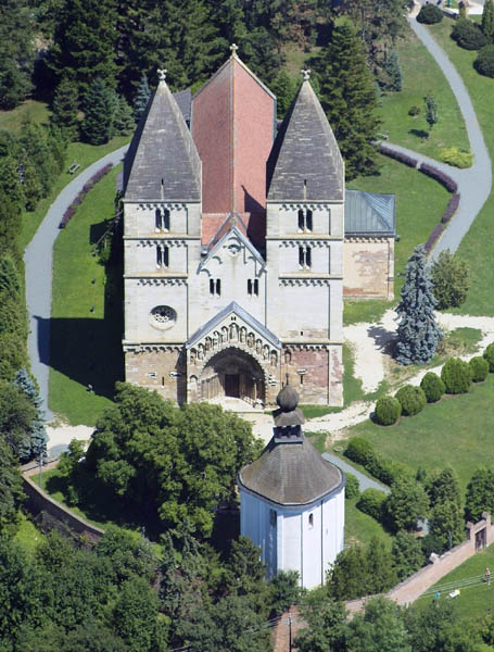 Ják, Hungary, aerial photography